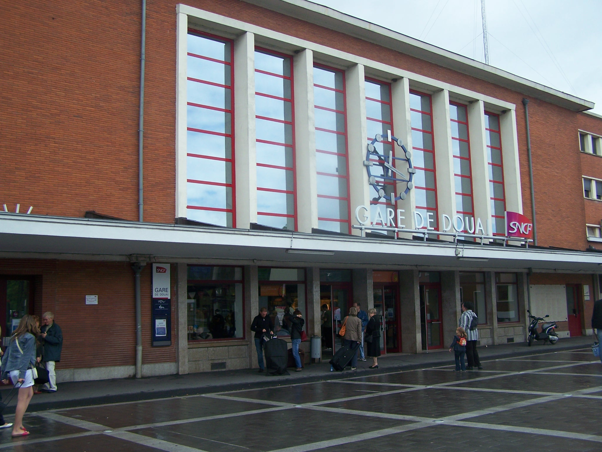 Front of the Douai station in the French department of Nord.